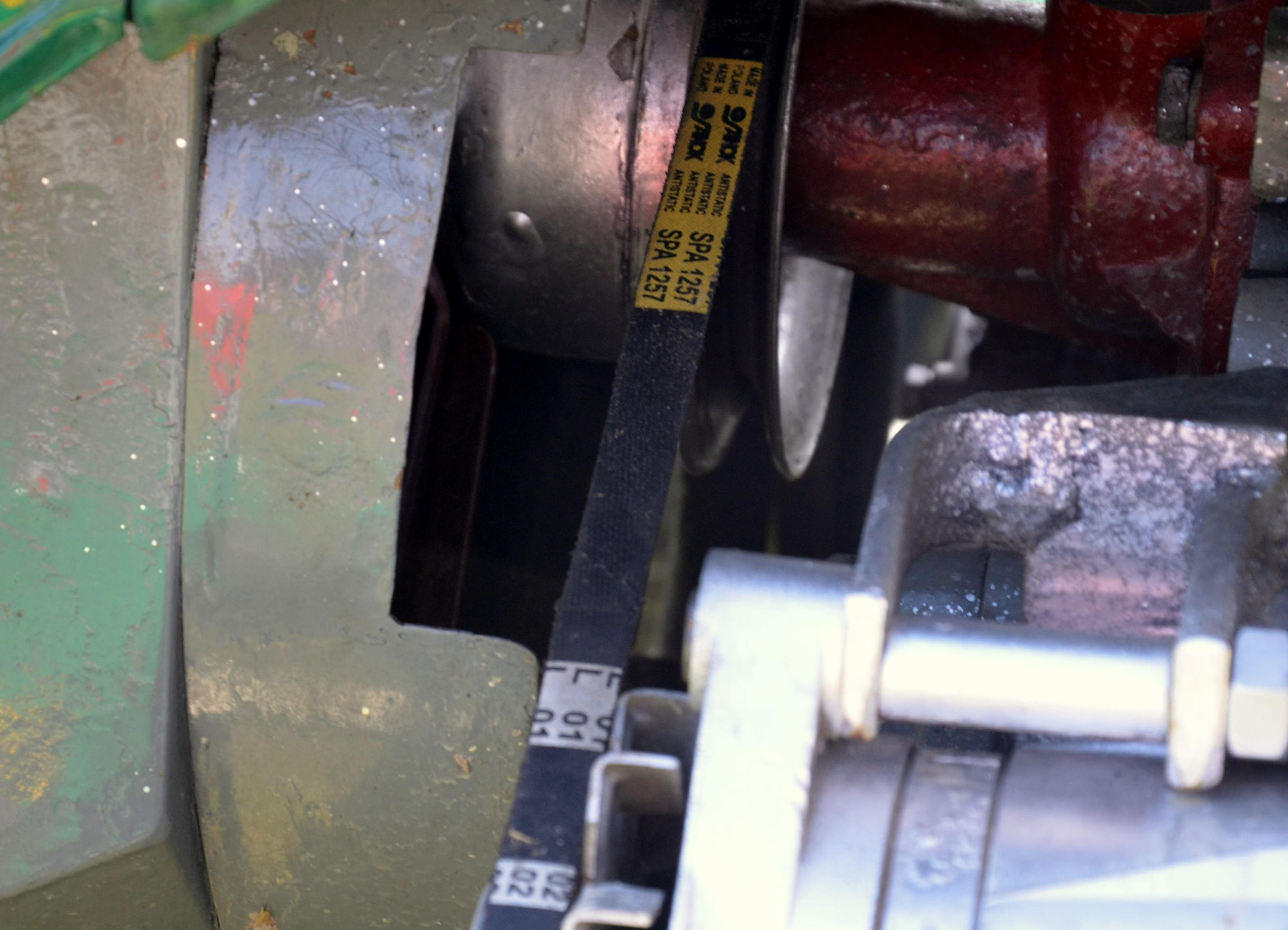 SPA 1257 alternator C-325